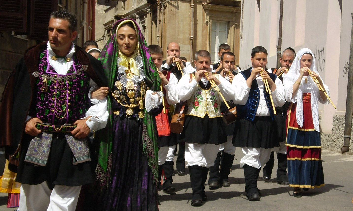 Folk costume of Pirri , Sardinia-Italy